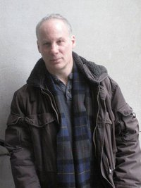 Photo of Mark Goldblatt (writer)